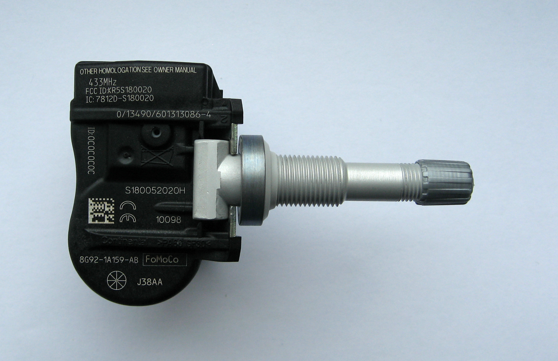 Tire-pressure monitoring system (TPMS) for Ford and Volvo cars (front side), Manufacturer: VDO